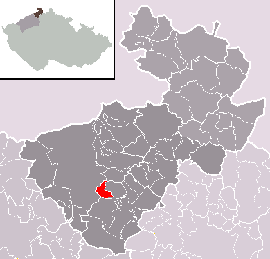 Location of Malá Veleň municipality within Děčín District and administrative area of Děčín as a Municipality with Extended Competence.